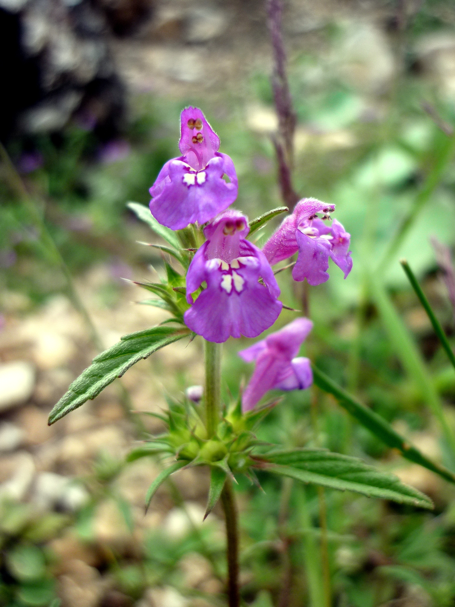 Galeopsis angustifolia. In la Bòfia, la Coma i la Pedra (Solsonès - Catalunya). To 1.820 m. altitude